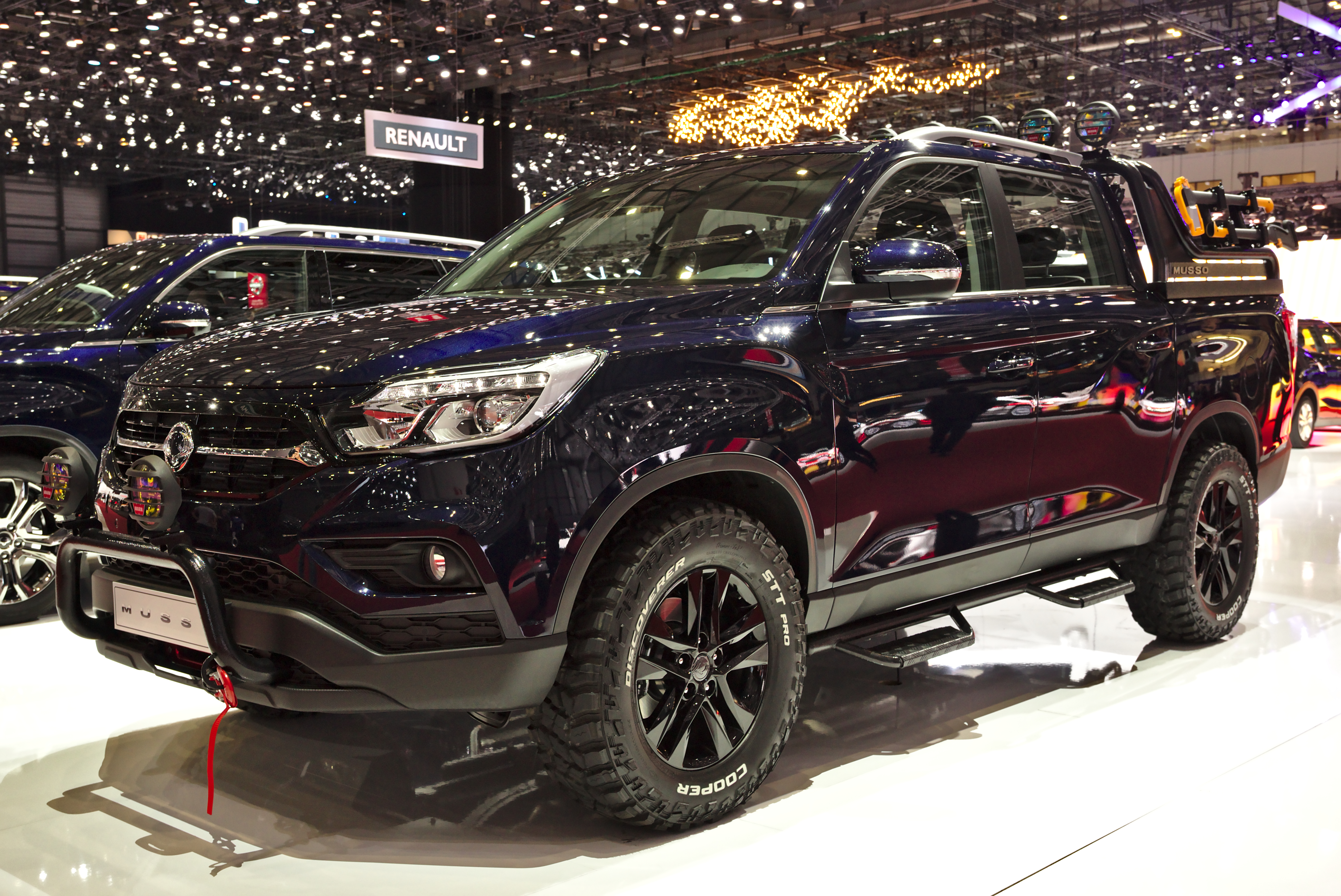 Ssangyong Musso at Geneva Motorshow 2018